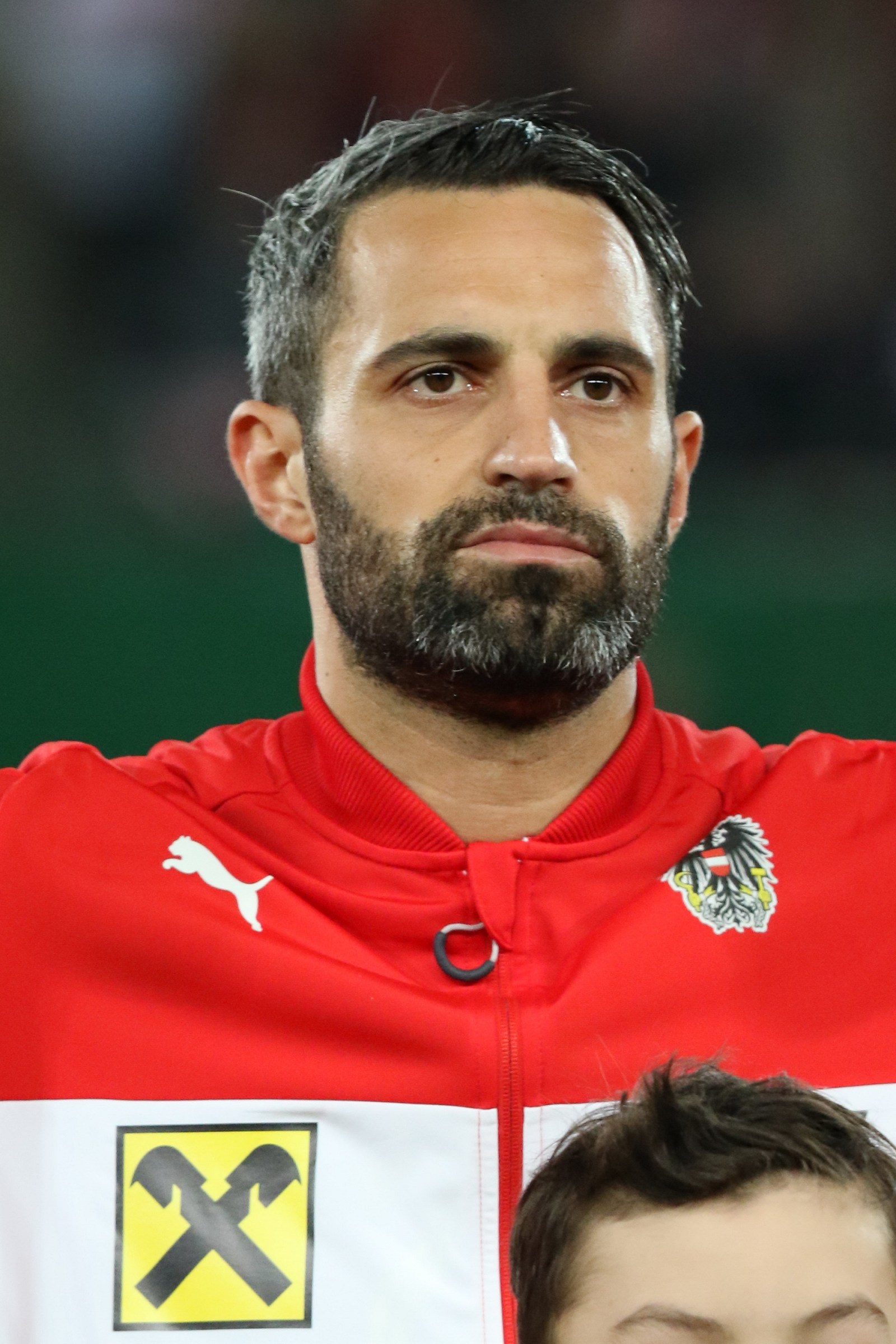 Friendly match – Austria (red shirts) vs. Turkey (blue shirts) 1–2 (1–1) on 2016-03-29 in Ernst-Happel-Stadion, Vienna – The photo shows the Austrian goalkeeper Ramazan Özcan (FC Ingolstadt 04).